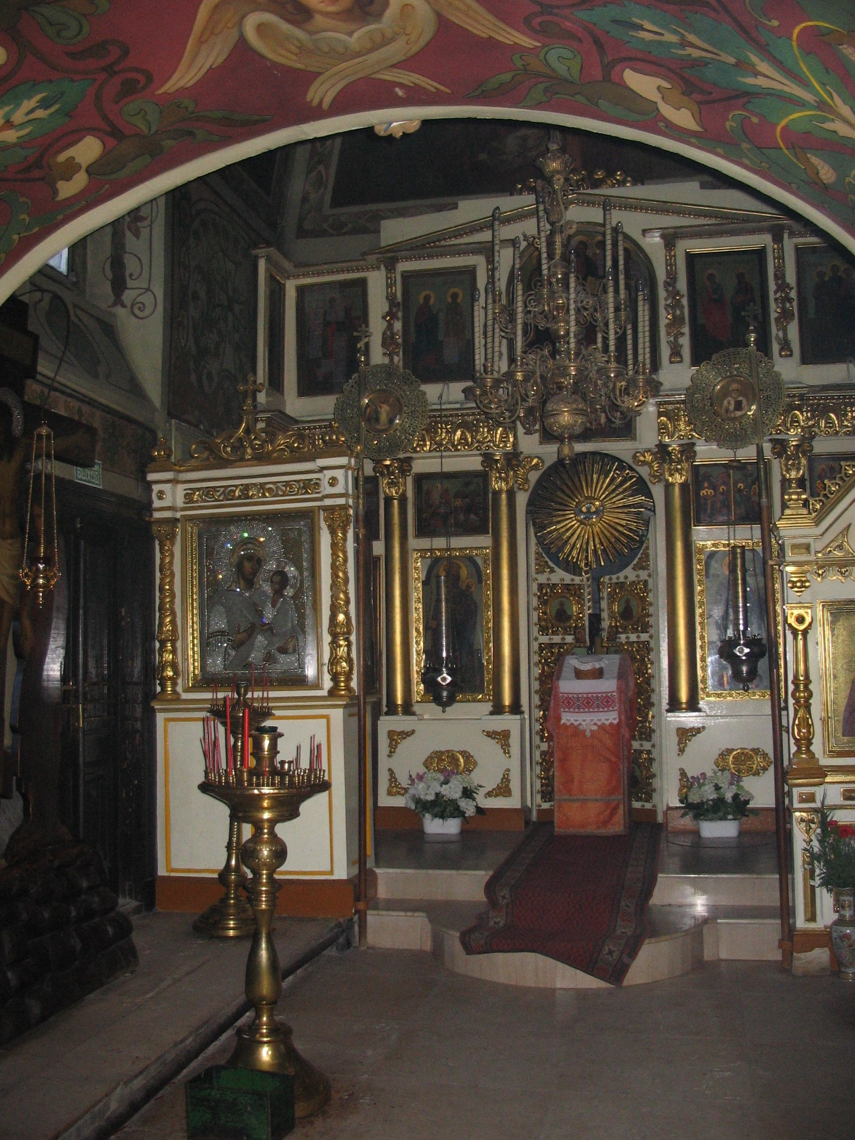 Church of Nativity in Izmaylovo. View from inside